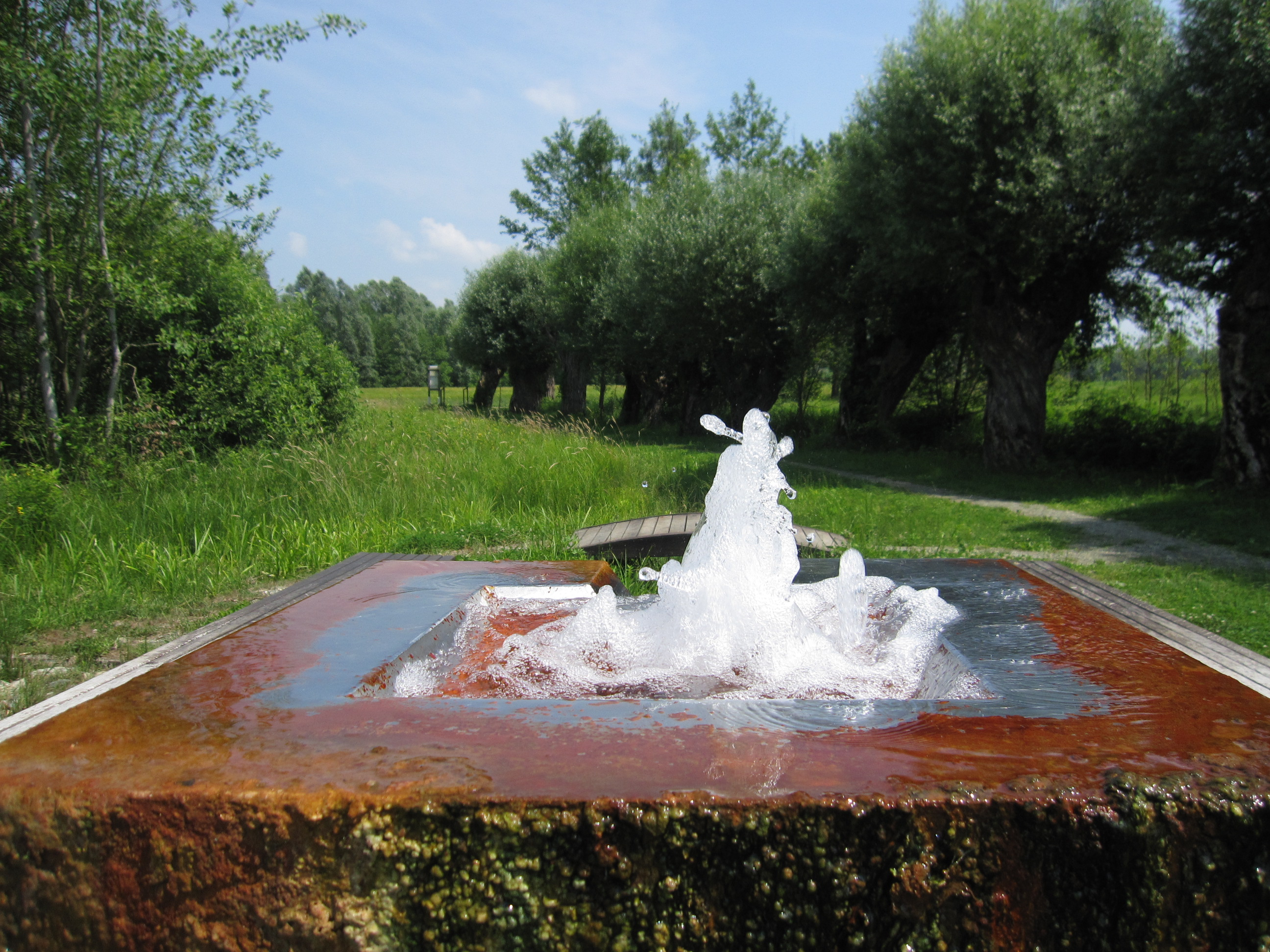 Mineral Water spring in Nuskova, NE of Slovenia. Red colour due to high level of minerals in water.